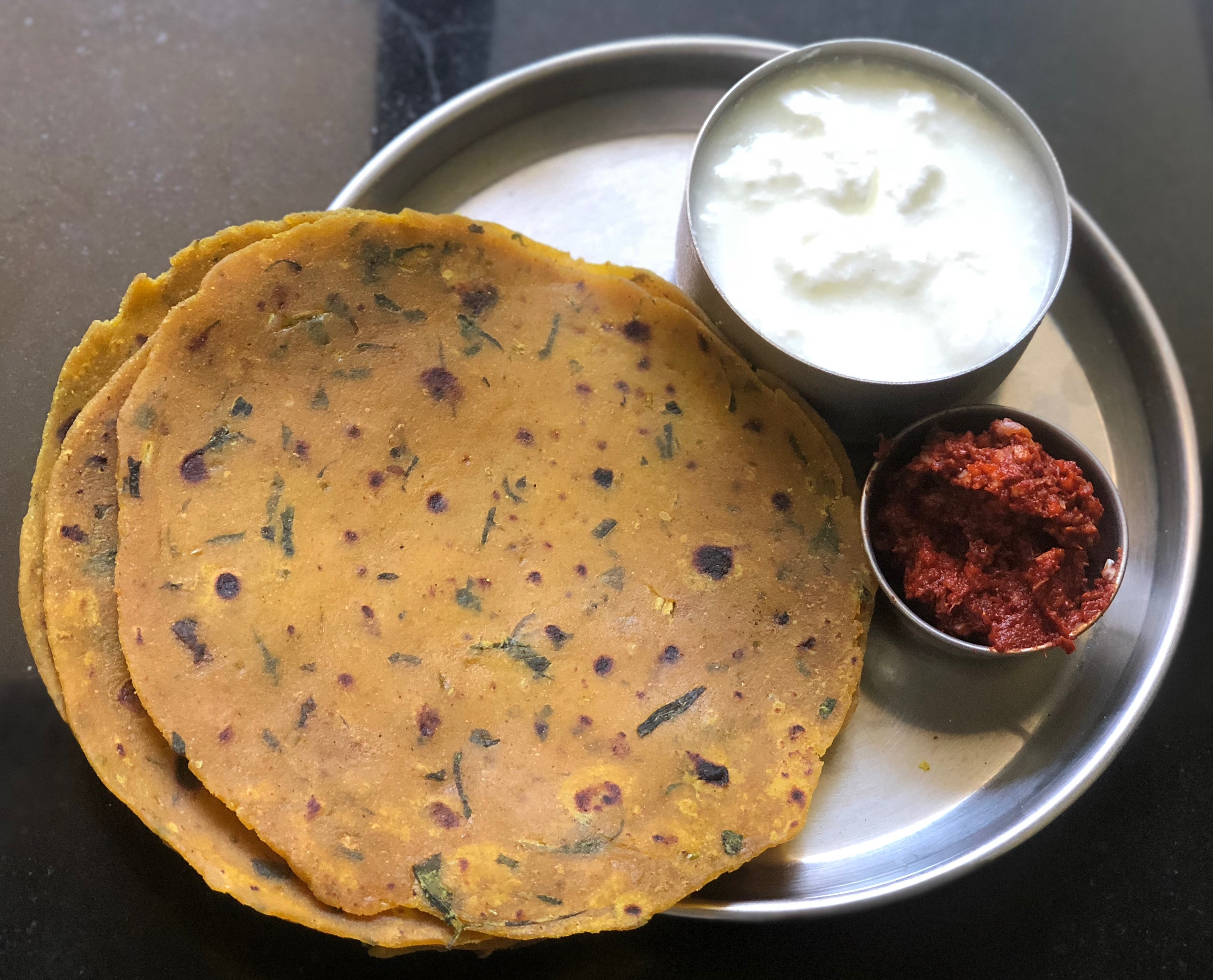 Thepla with Yoghurt and Pickle